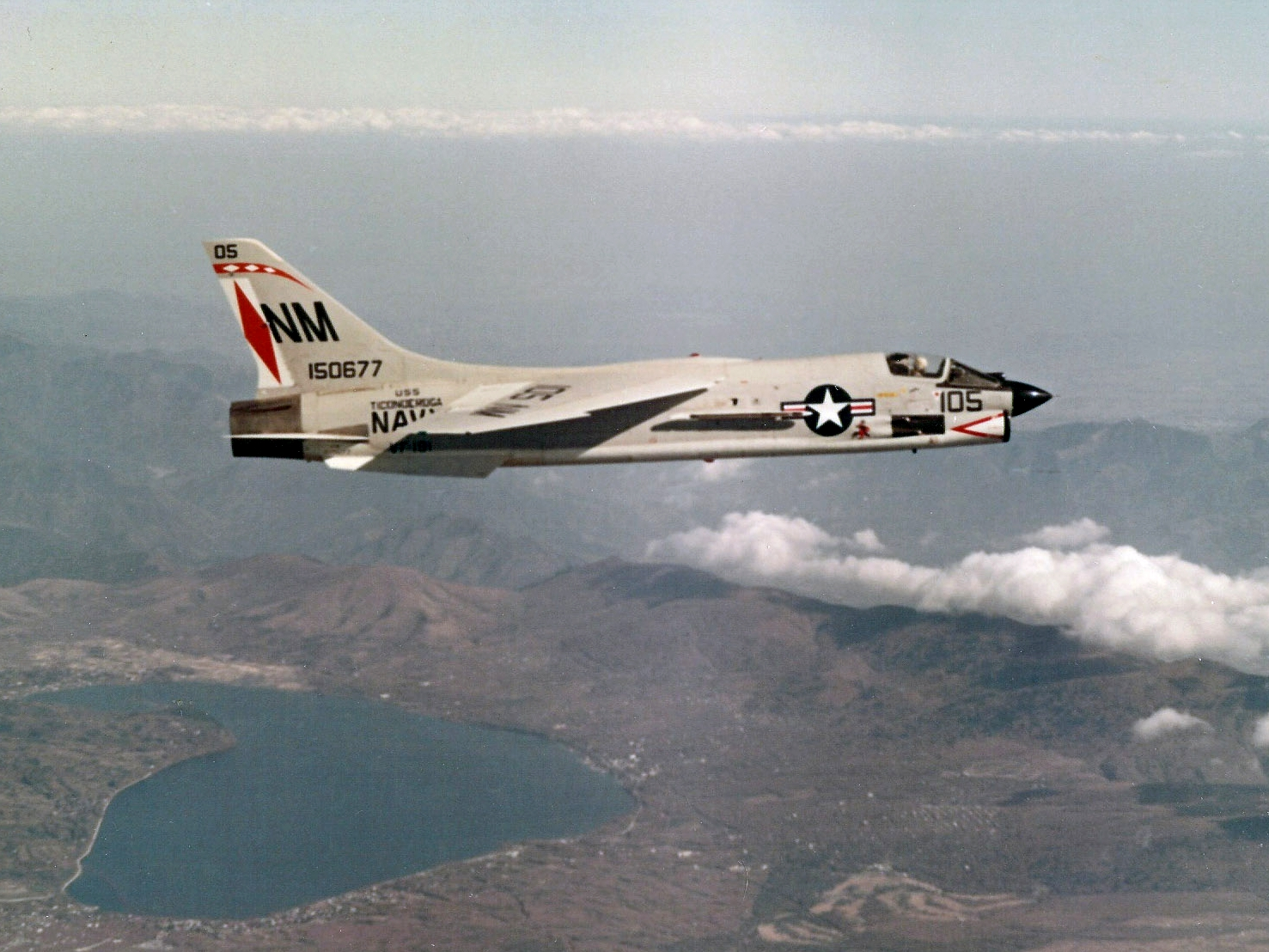 A U.S. Navy Vought F-8E Crusader of Fighter Squadron VF-191 "Satan's Kittens" in flight. VF-191 was assigned to Carrier Air Wing 19 (CVW-19) aboard the aircraft carrier USS Ticonderoga (CVA-14).